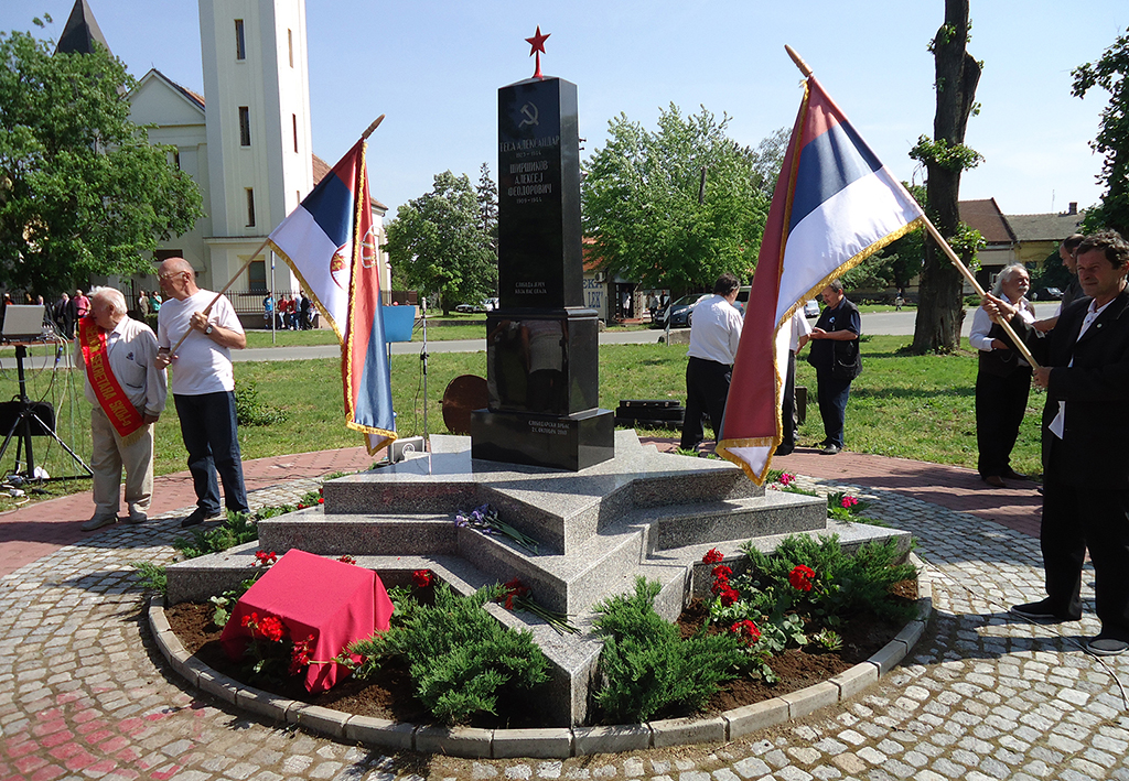 Monument dedicated to fallen soldiers of the Red Army on the day of nomination of the Square of the Red Army in Vrbas 2013.